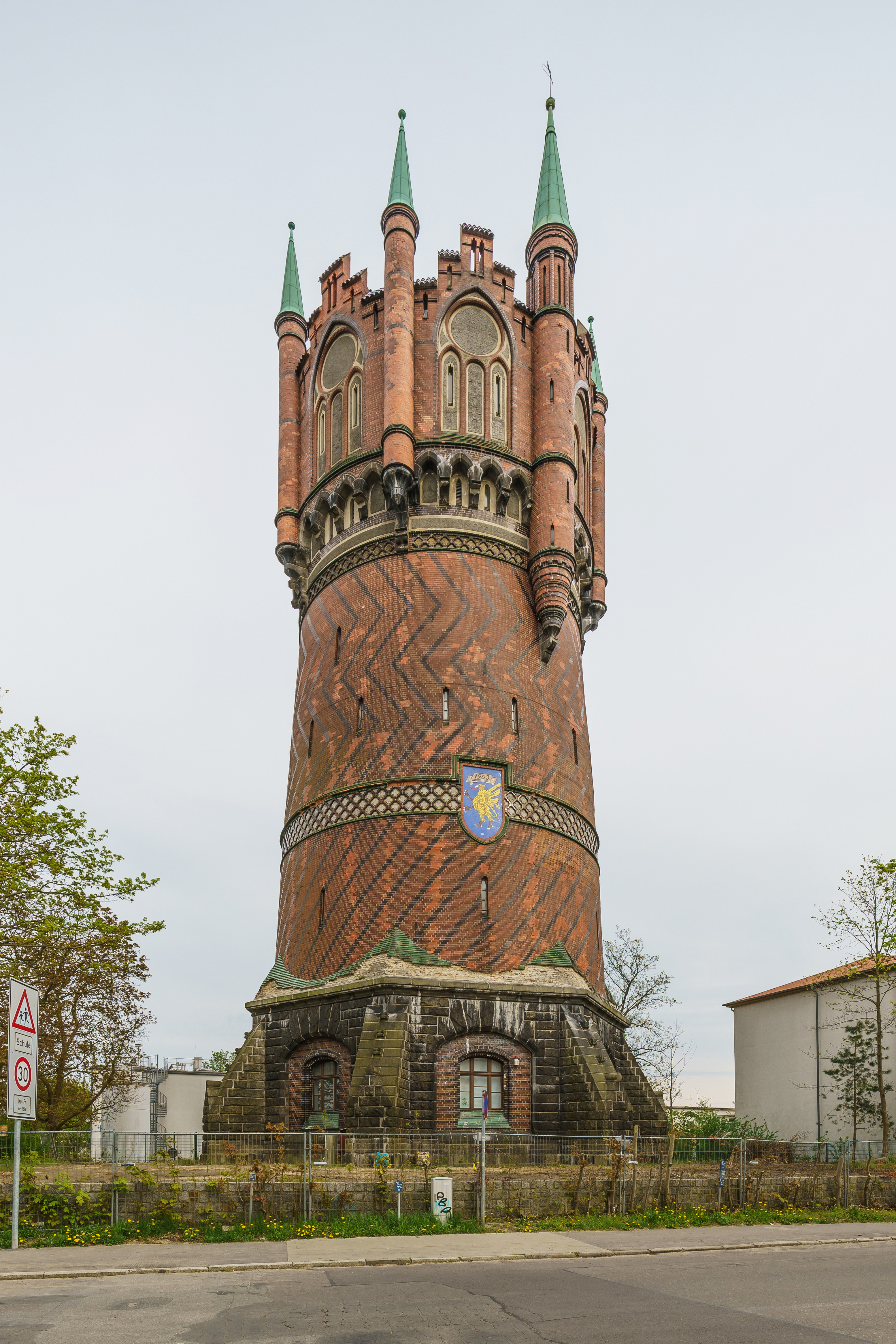 Historical water tower in Rostock, Germany